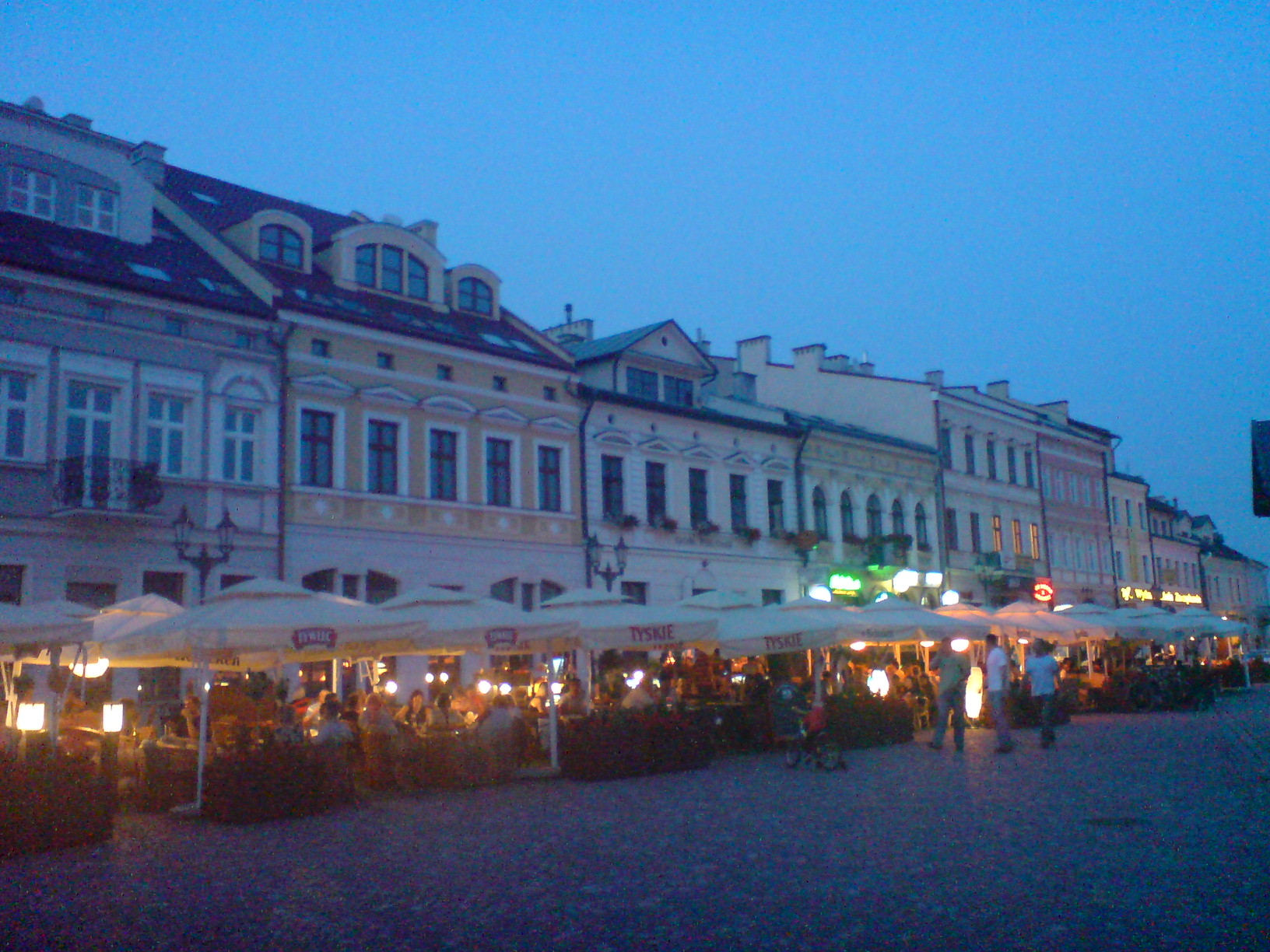 Rzeszów, Market Square